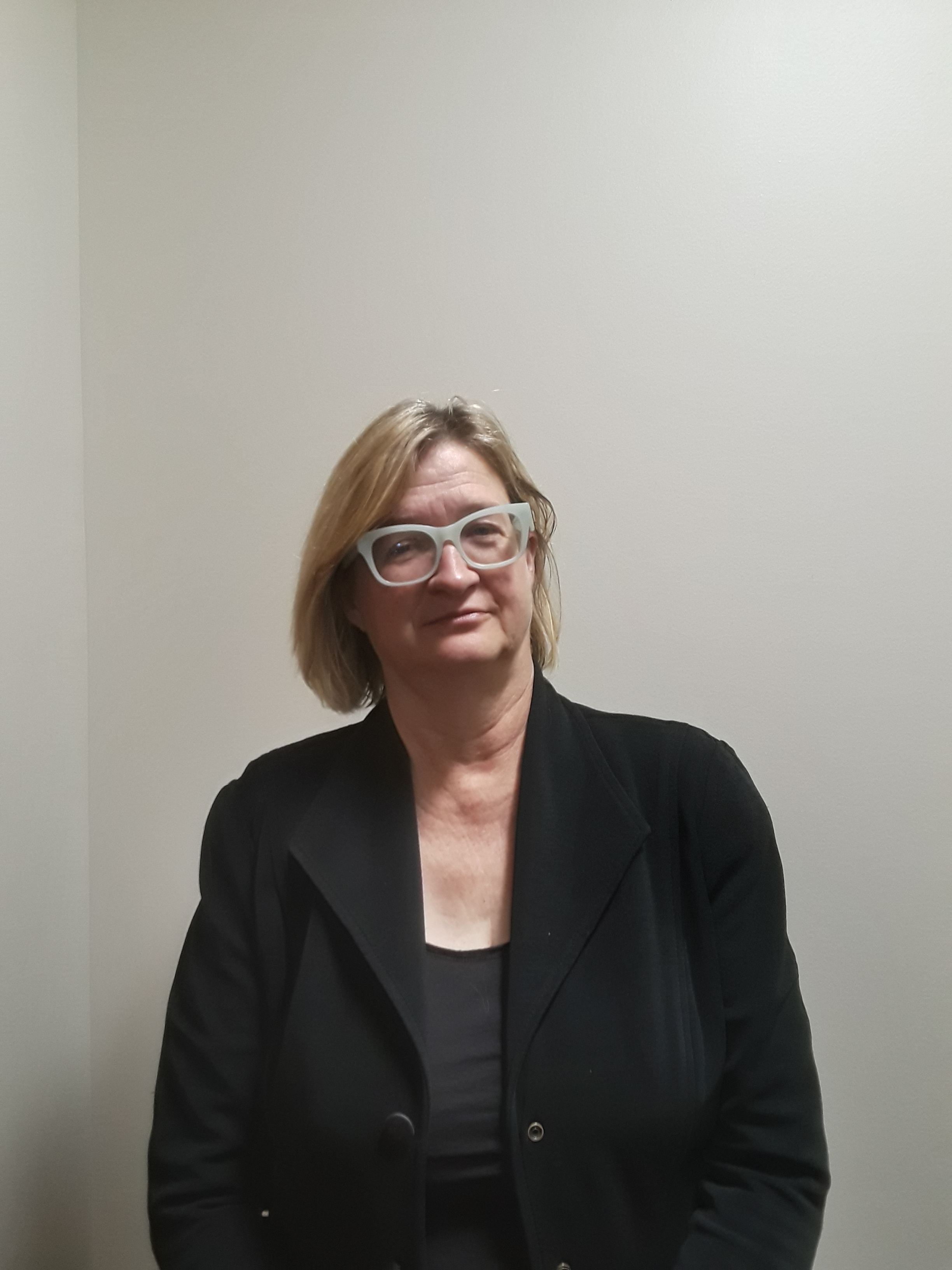 Portrait of Elizabeth Losh in the Swem Library at William and Mary, November 2018